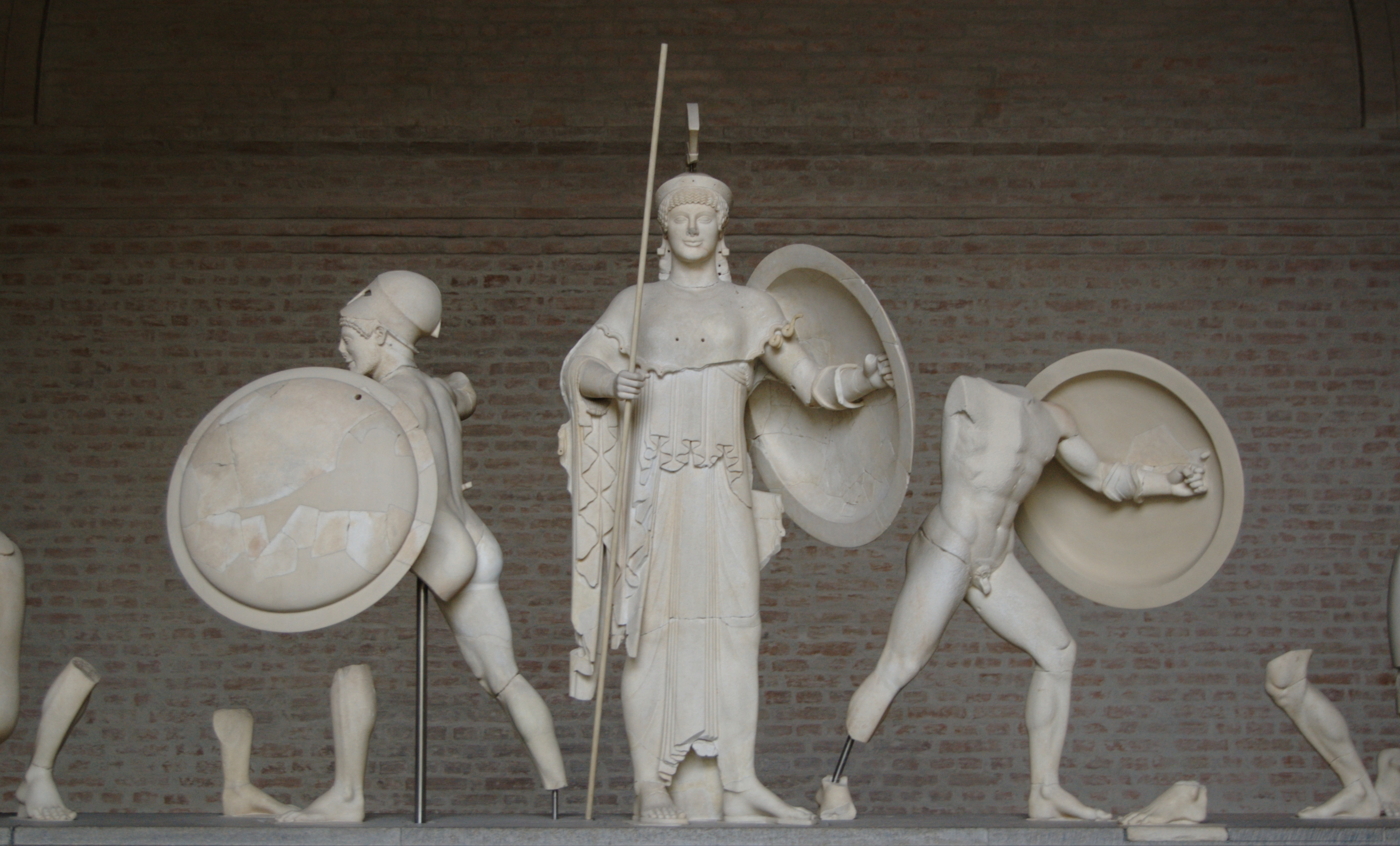 The 5 central figures of the west pediment of the Temple of Aphaia, ca. 505–500 BC. From left to right: W-X (feet, Trojan), W-XI (Ajax, Inv. 80), W-I (Athena, Inv. 74), W-II (Trojan, Inv. 76) and W-III (feet, Greek).